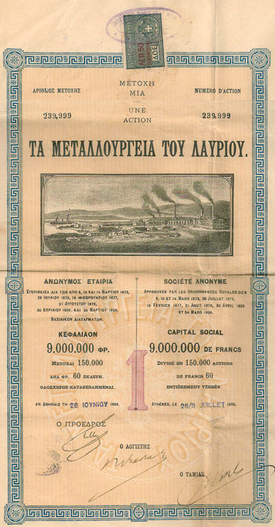 1909 share of the company Ta metallourgeia tou Lavriou